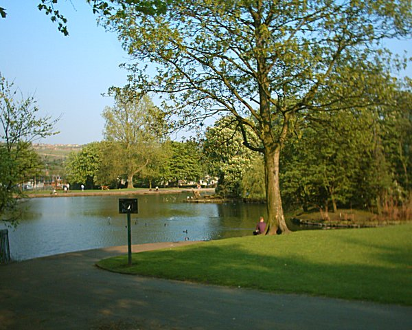 Hillsborough Park lake, Sheffield.